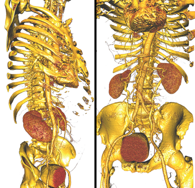 A human torso rendered with ImageVis3D, dataset courtesy of Siemens Corporate Research.